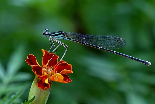 Dragonfly (Anisoptera).